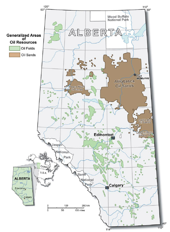 Petroleum resources in Alberta, according to the Argonne National Labs.